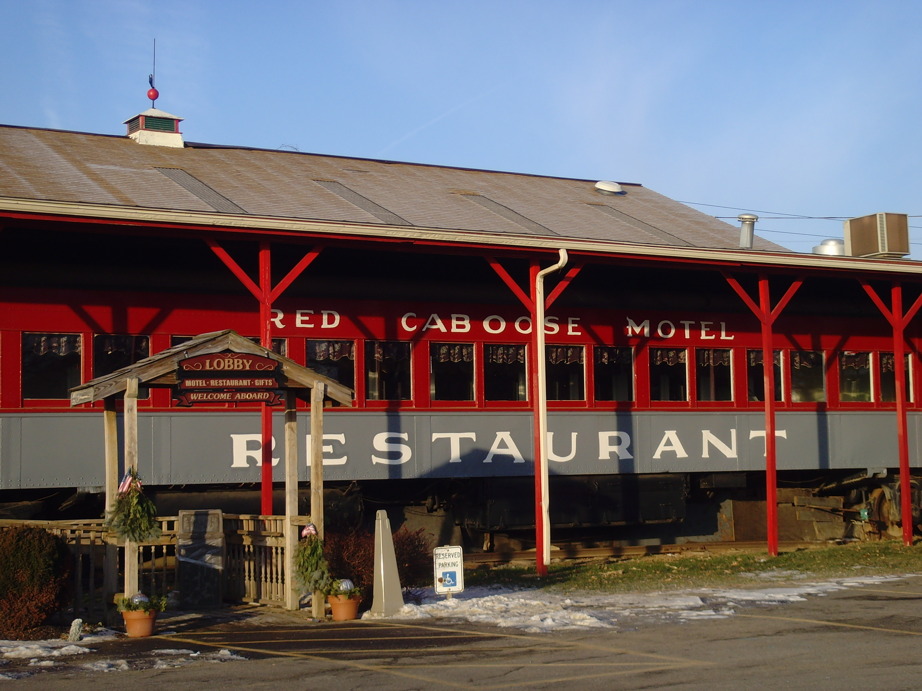 0472 Strasburg - Red Caboose Motel